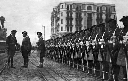 British occupation troops in Galata